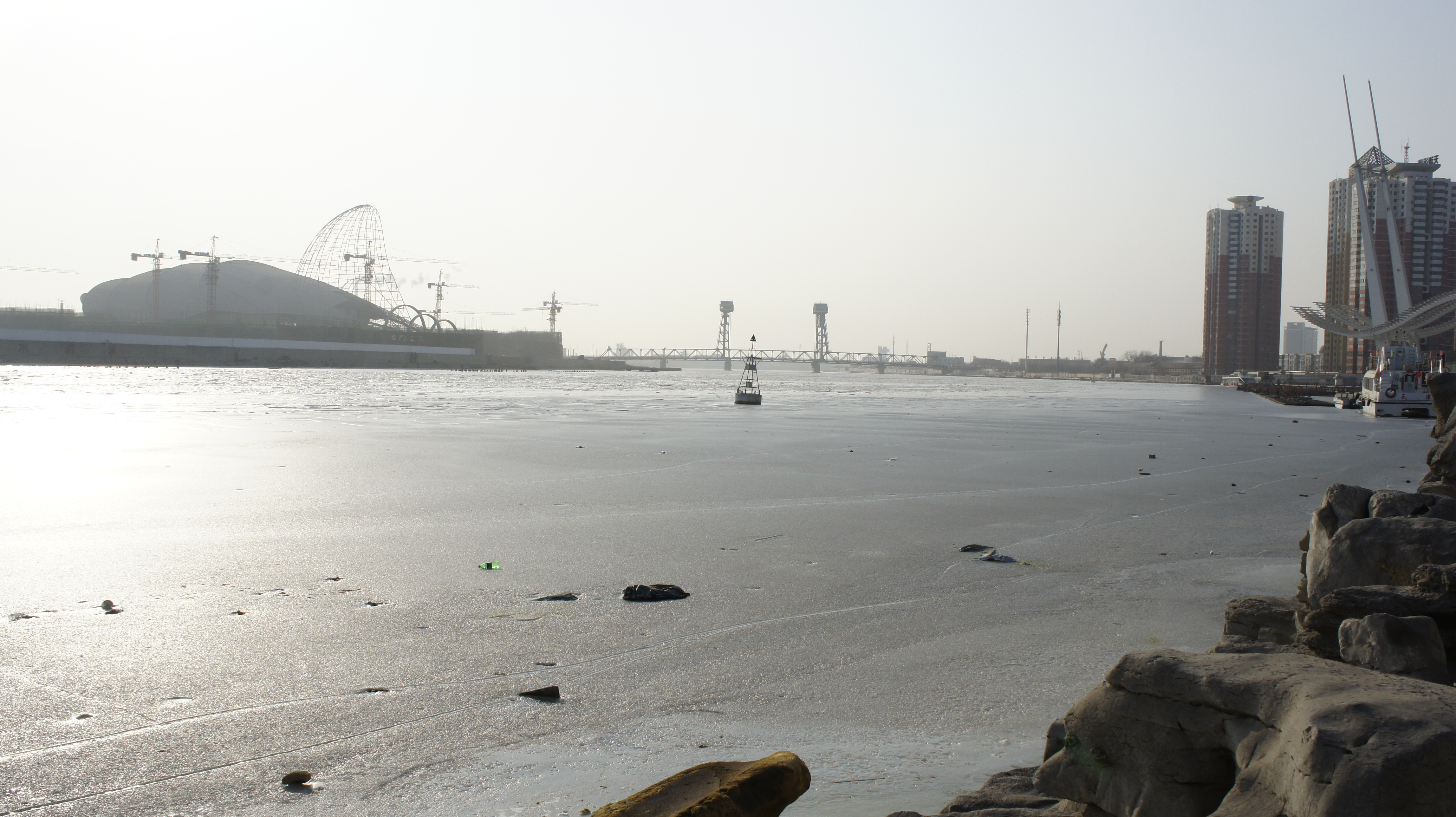 The Bund of the Hai river, Tianjin.